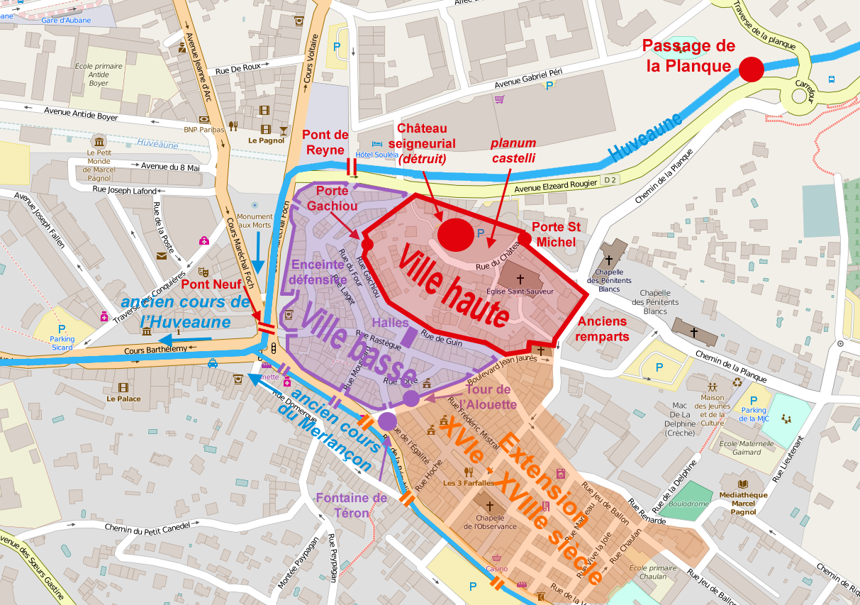 Map of Aubagne extension between the 16th and 18th centuries